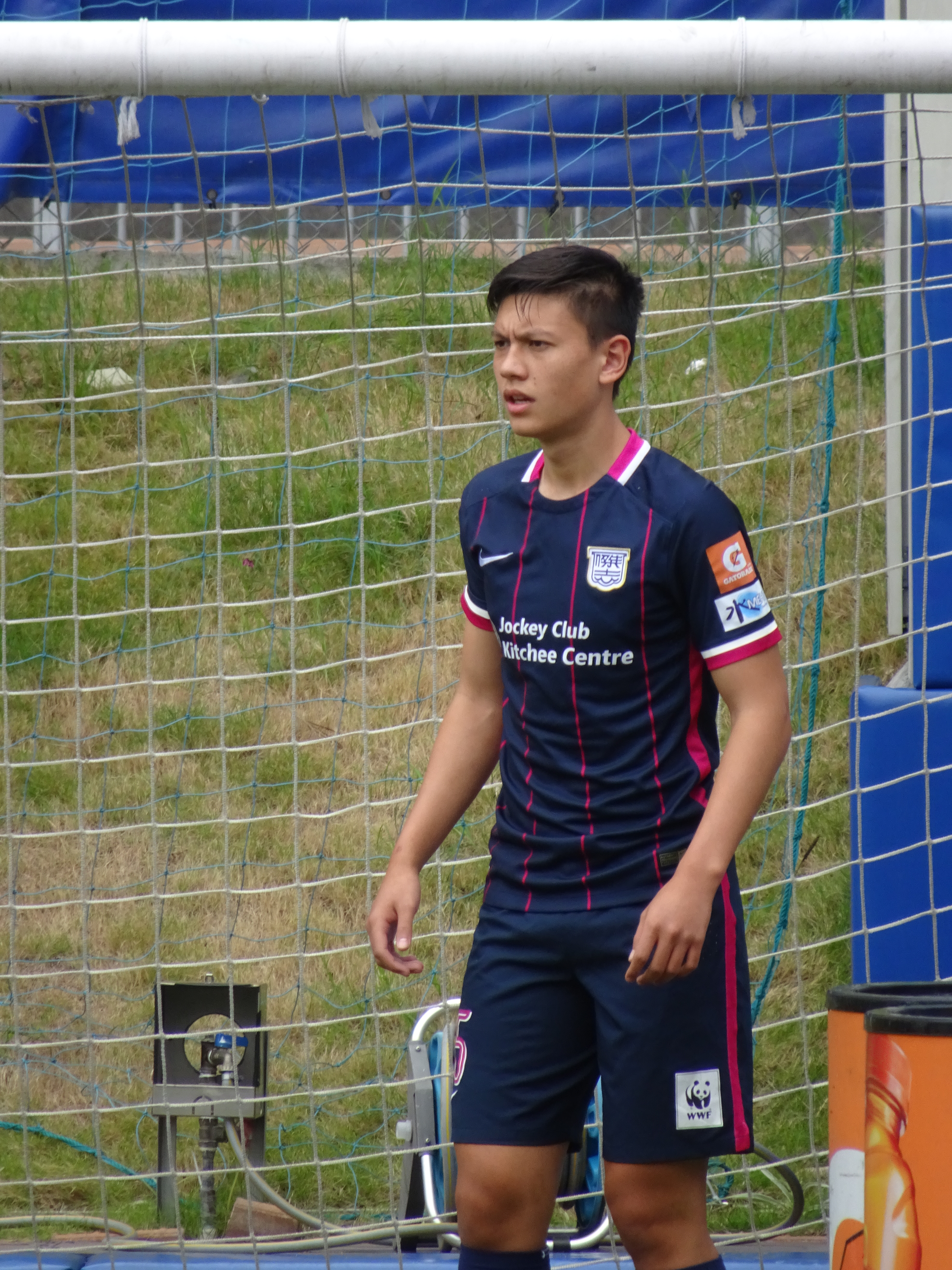 Mark Francis Mercenes Swainston (23 Mar 2017, Kitchee vs Pahang FA, Friendly, Jockey Club Kitchee Centre) 中文（香港）: 史雲斯頓 (23 Mar 2017, 傑志 vs 彭亨, 友賽, 賽馬會傑志中心)